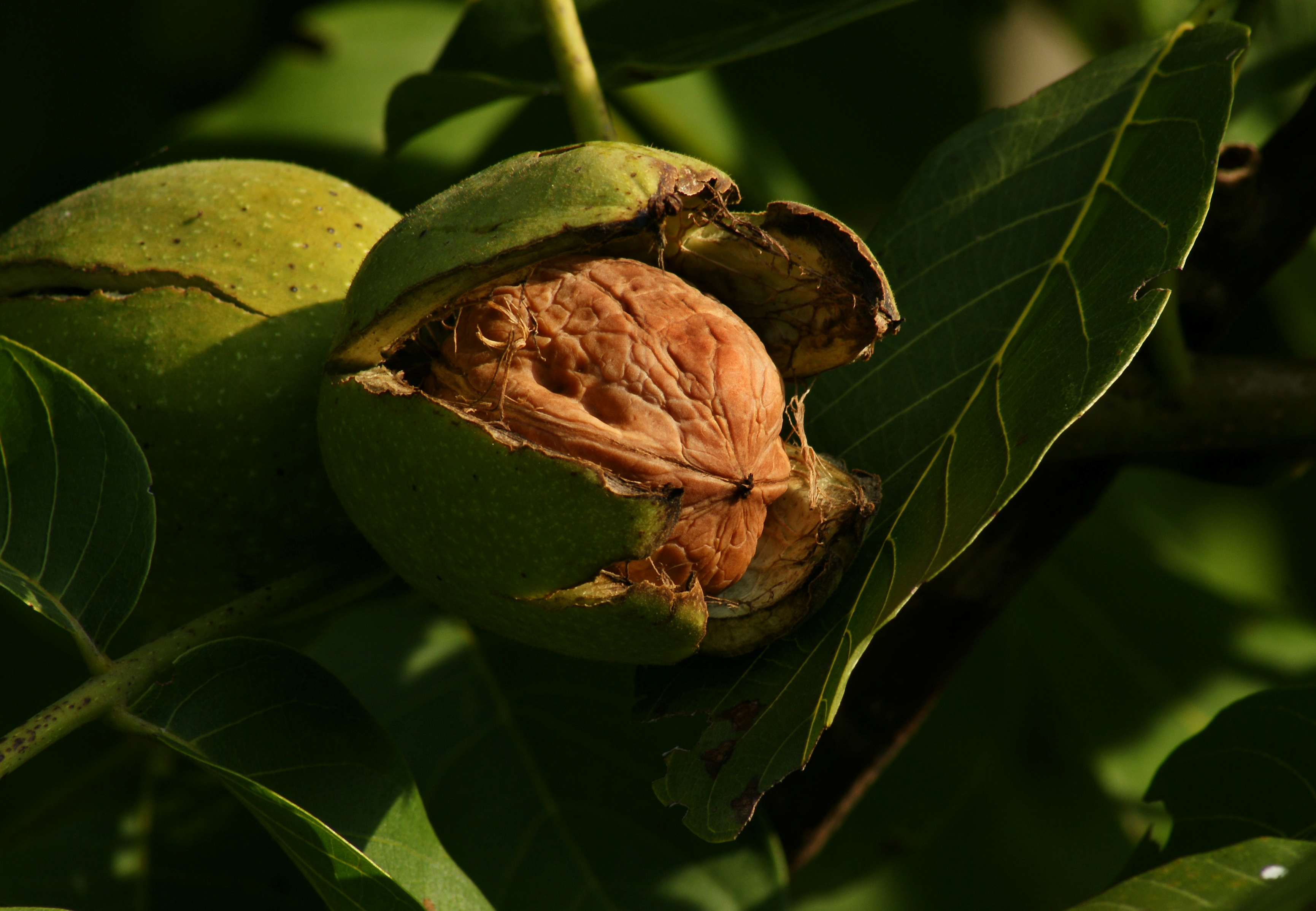 Juglans regia (the Common walnut or Persian walnut), is the original walnut tree of the Old World.